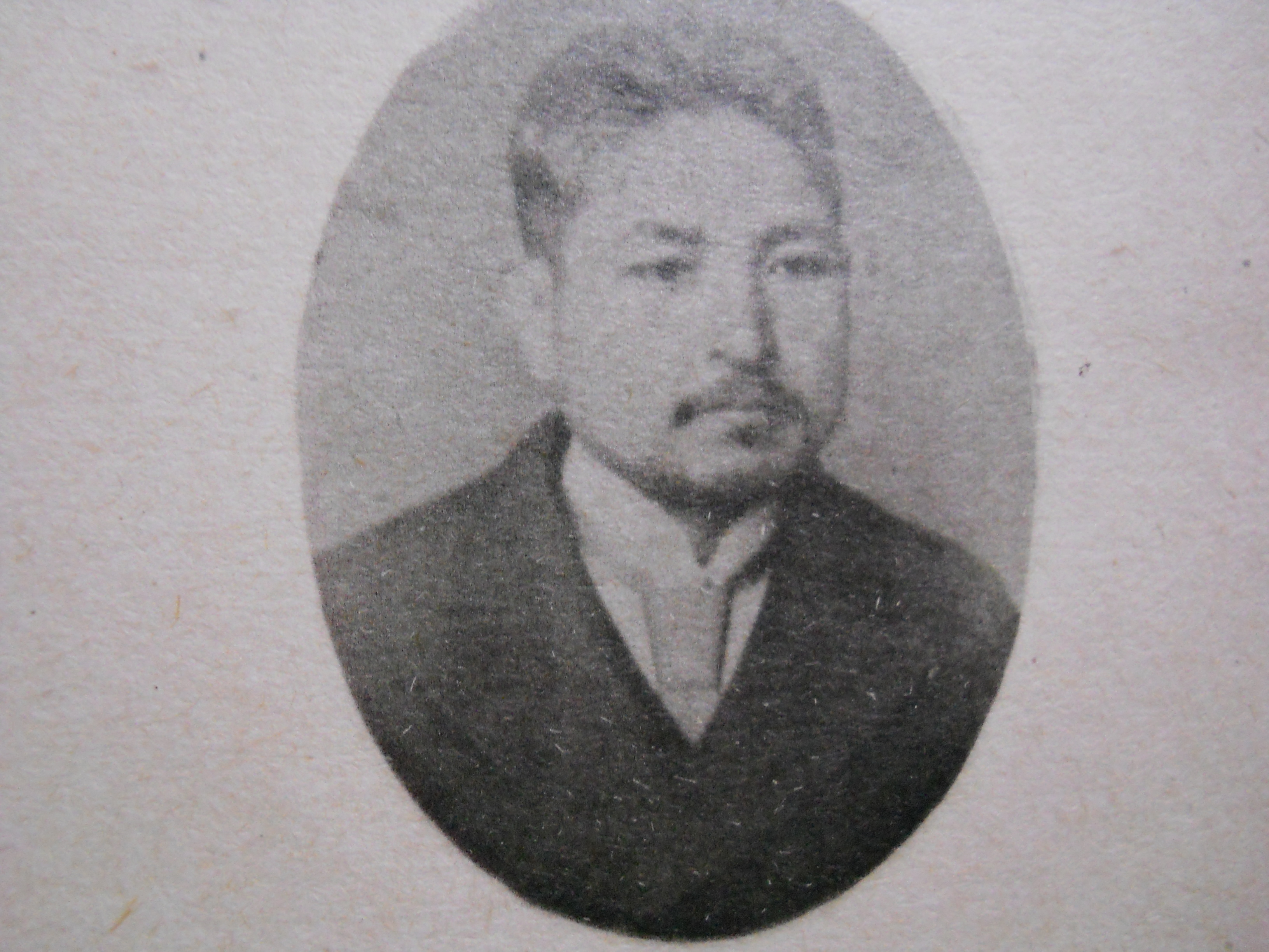 Ｓｕｍｉｄａ Ｙｏｎａｇｏ Ｍａｙｏｒ1